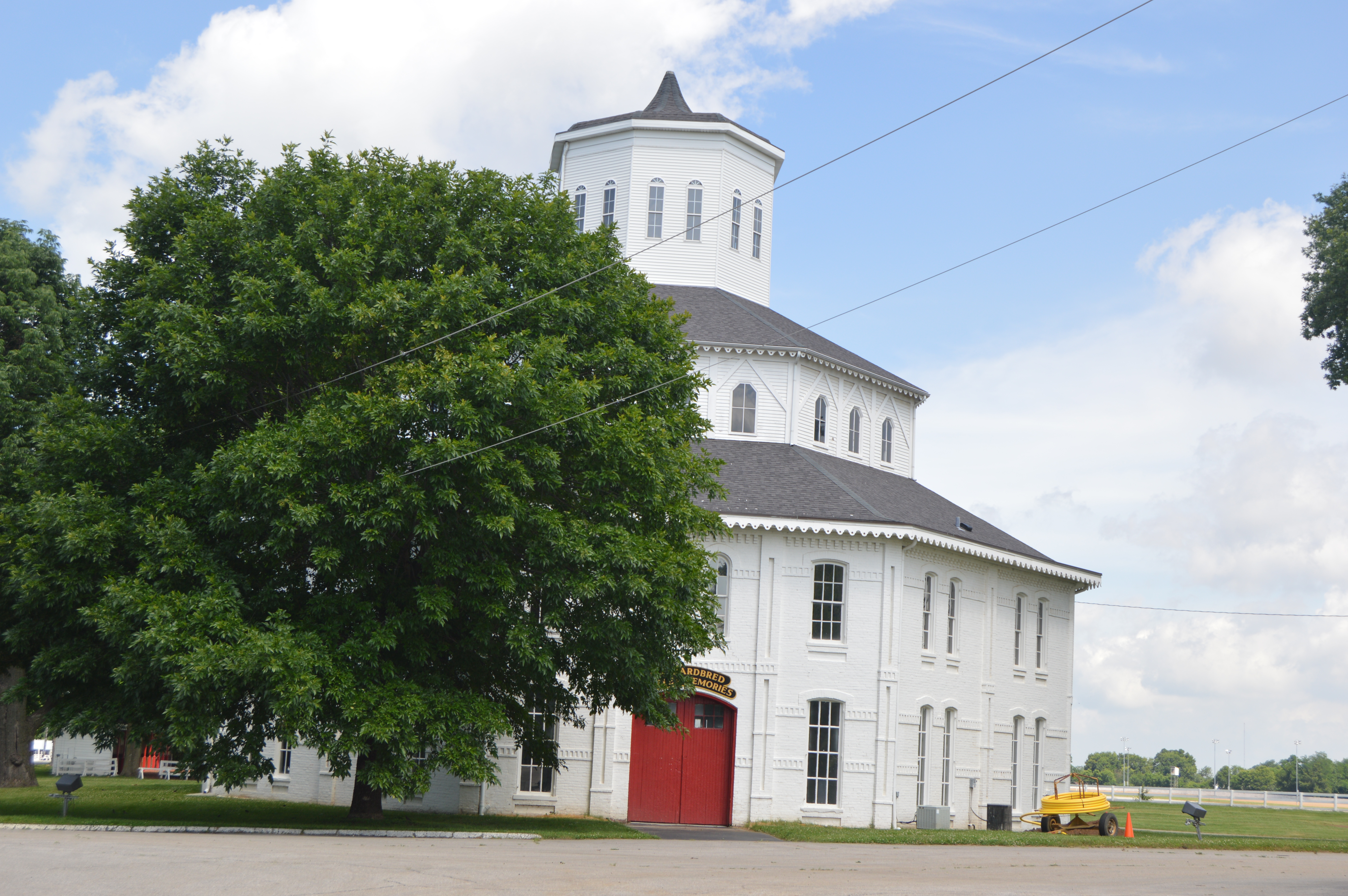 Eastern front of Floral Hall, located on Red Mile Road at the old county fairgrounds in Lexington, Kentucky, United States. Built in 1882, it is listed on the National Register of Historic Places.